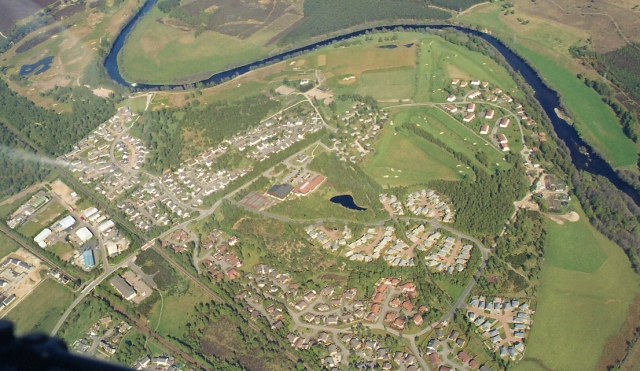 Aviemore. The village of Aviemore has expanded enormously in recent decades as more and more tourist accommodation has been built.